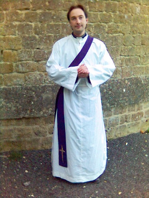 An Anglican priest vested as a deacon, wearing an alb, cincture and purple stole. Taken by Gareth Hughes on 21 October 2005.